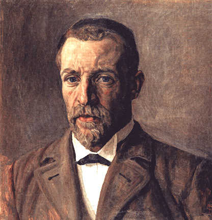 "Fritz Syberg Selvportræt", self portrait of the Danish artist Fritz Syberg, Johannes Larsen Museet.